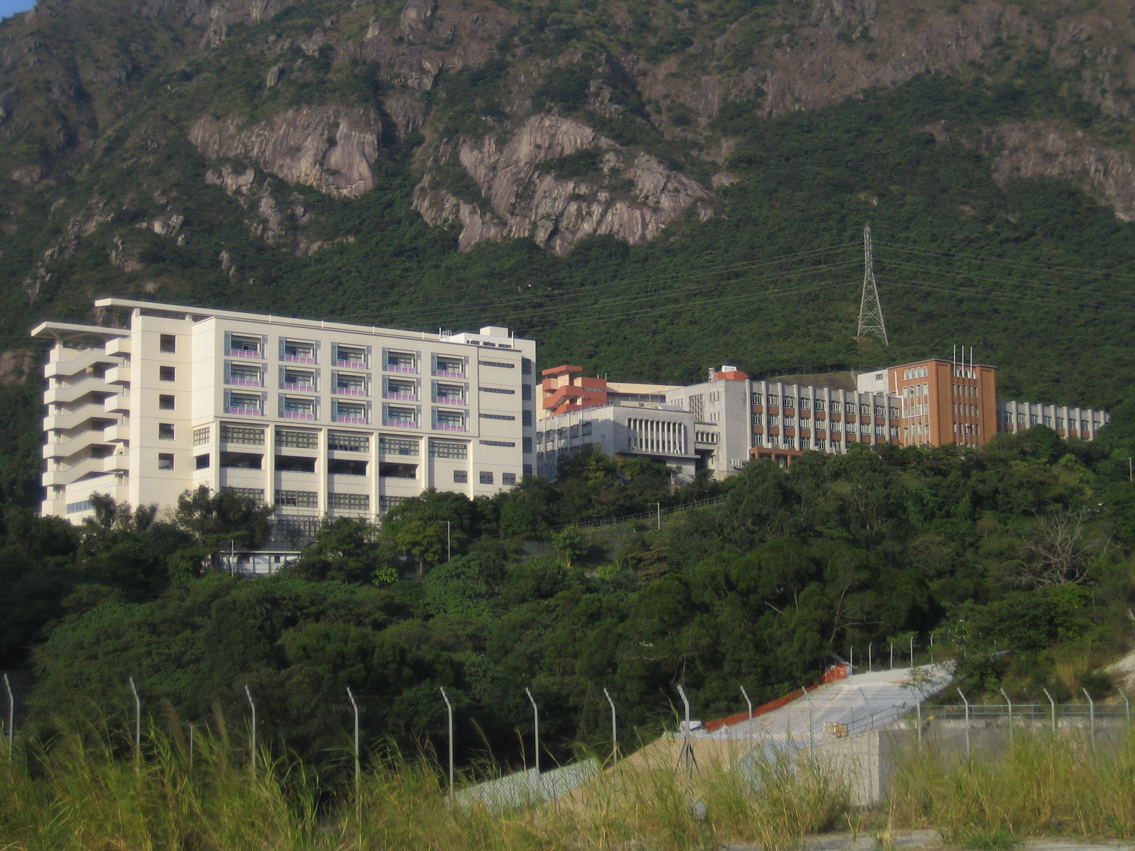 This image is the south-west view of GHS campus which is taken at the end of Choi Hing Road, Hong Kong. If you have any questions about the licensing (like cc-by-sa, GFDL), or you want to republish the image without using the licensing shown as below, you are welcome to leave a message on the User Talk Page of my Chinese Wikipedia account. 中文（香港）: 這照片是從西南面拍下德望學校校舍，拍攝地點是香港九龍彩興路盡頭。 如你對這照片版權許可協議 (例cc-by-sa, GFDL) 有疑問，或你想把照片不用以下的版權協議轉載，歡迎你到我在中文維基百科的用戶對話頁留言。